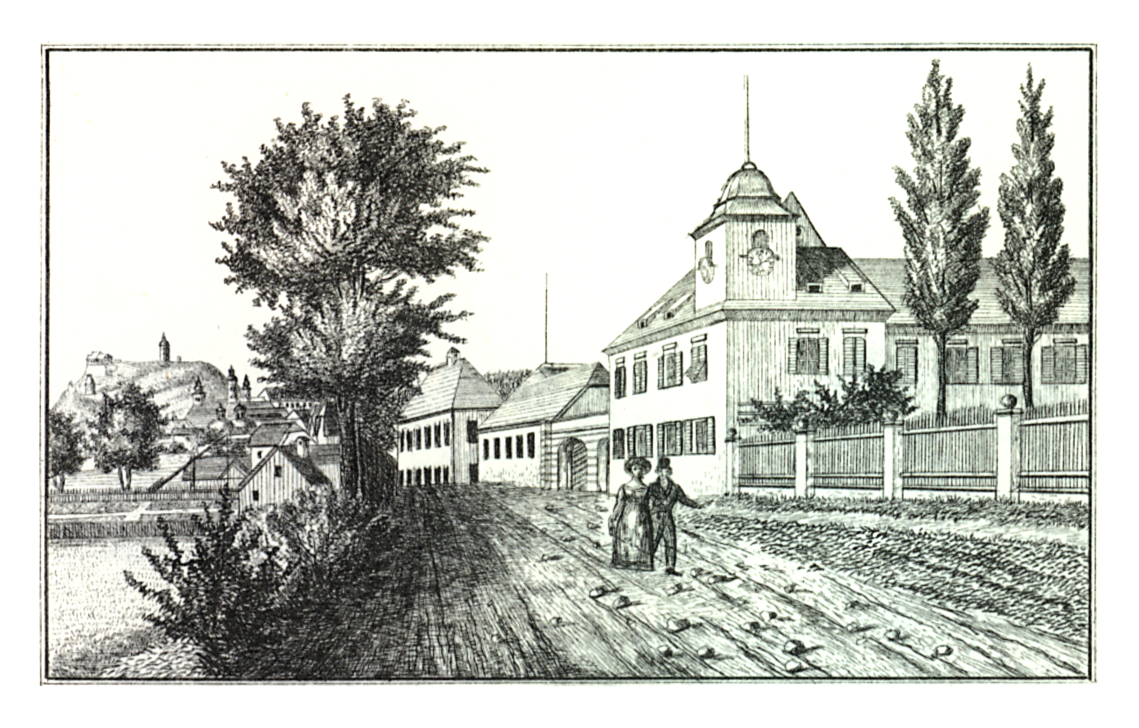 J. F. Kaiser - lithographirte Ansichten der Steyermärkischen Städte, Märkte und Schlösser, Graz 1824-1833 Joseph Franz Kaiser (1786–1859) Alternative names J. F. KaiserDescriptionAustrian printer and editorDate of birth/death 11 March 1786 19 September 1859Location of birth/death Graz (Styria) GrazAuthority control : Q1499963 VIAF: 30629353 ISNI: 0000 0000 3083 0153 LCCN: n87141671 GND: 129880159 NLP: A24960305 WorldCat creator QS:P170,Q1499963 . Scanprojekt Community Projektbudget 2012 This scan or this PDF-file was created within the GLAM-project Bookscanning, supported by Wikimedia Germany and Wikimedia Austria as a part of the community-project to capture books, documents and pictures which are not eligible to copyright or for which the copyright has expired. This document describes or depicts an object which is located in Austria today. Send requests for uncompressed scans to Hubertl. This work is in the public domain in its country of origin and other countries and areas where the copyright term is the author's life plus 100 years or less. You must also include a United States public domain tag to indicate why this work is in the public domain in the United States. This file has been identified as being free of known restrictions under copyright law, including all related and neighboring rights.